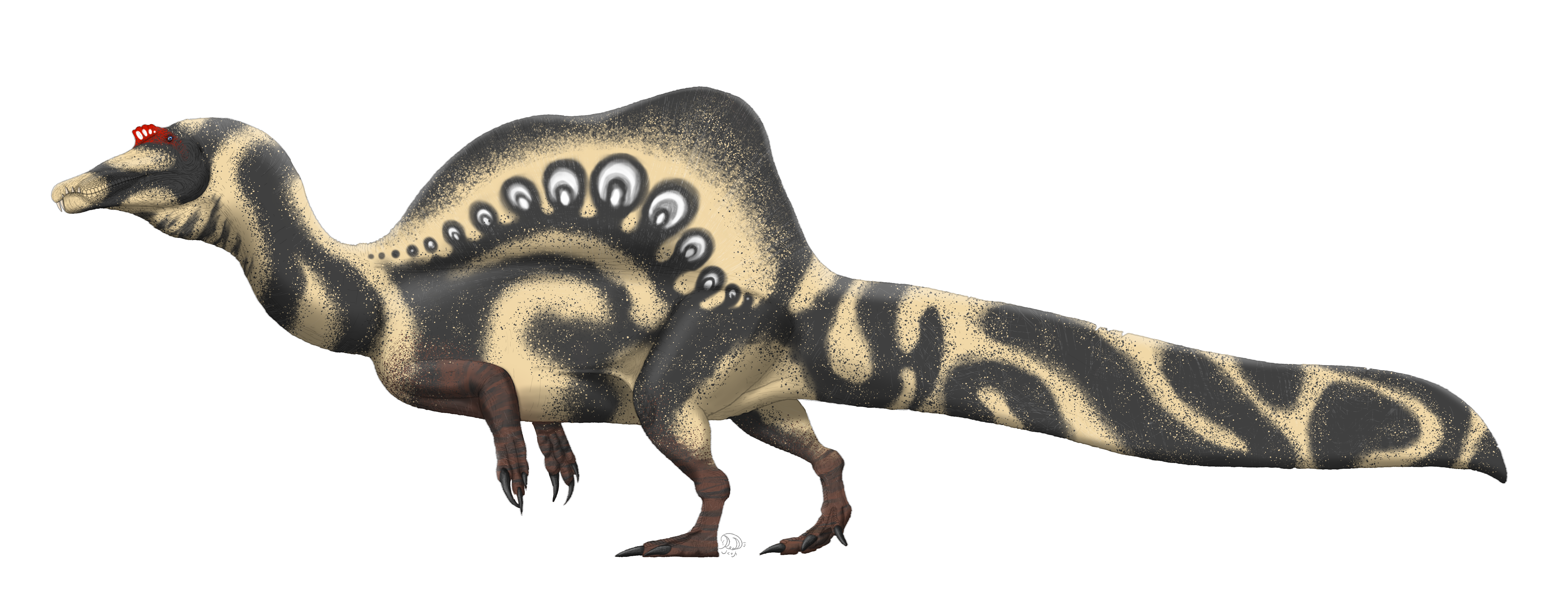 Life reconstruction of the spinosaurid theropod Oxalaia quilombensis. References: Fossil material: Kellner et al. (2014).[1] Sales and Schultz (2017).[2] Body and rest of skull based on Spinosaurus aegyptiacus: Ibrahim et al. (2020).[3]" Throat pouch/dewlap based on those seen in living aquatic dinosaurs and crocodilians: Pelecanus conspicillatus (Australian pelicans):File:Australian_Pelican_showing_large_pouch.jpg Alligator mississippiensis (American alligators):[4]